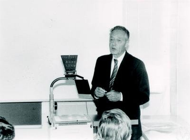 Laszlo Fejes Tóth, Wien 1987